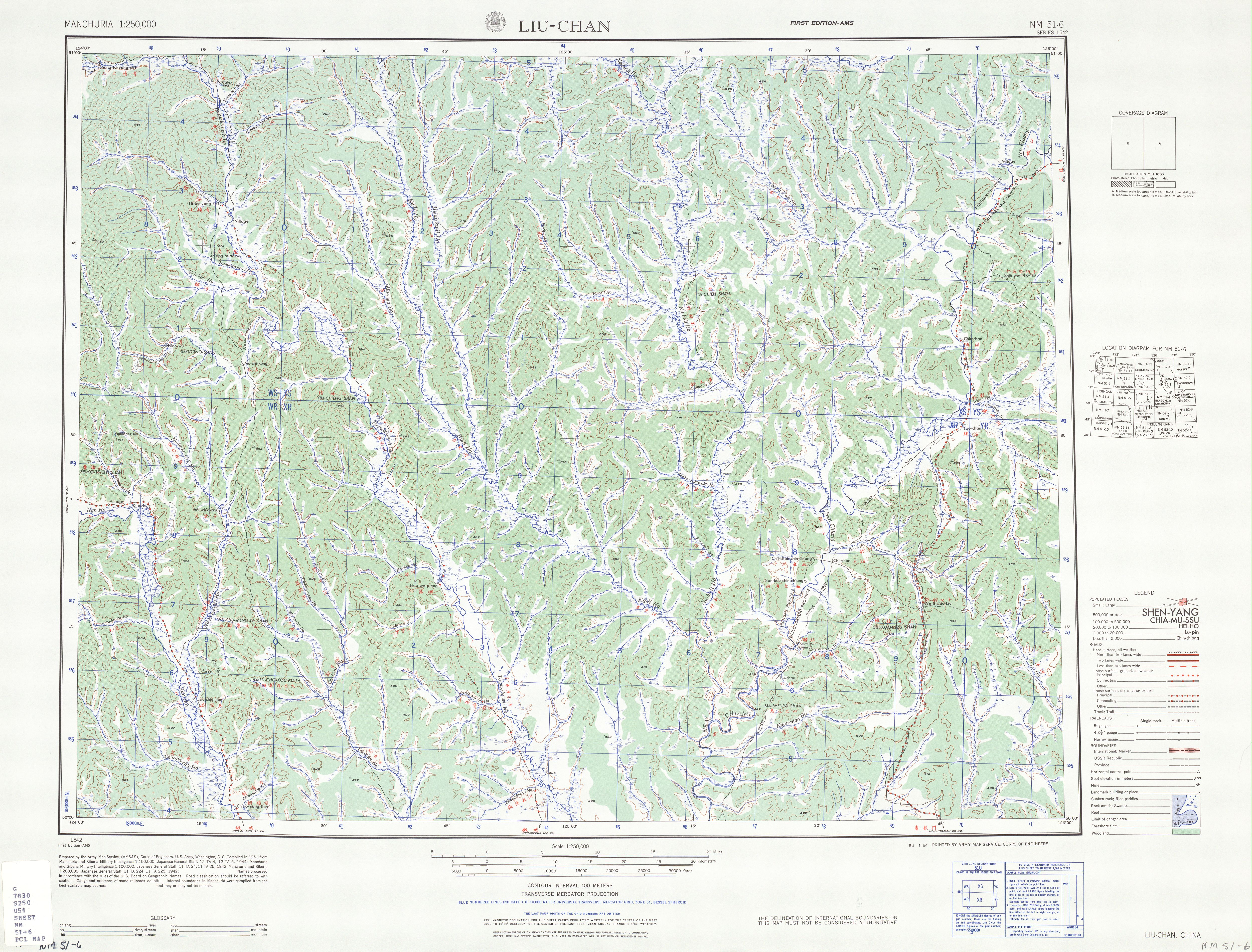 Manchuria AMS Topographic Maps